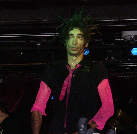 Jimmy Urine on December 21, 2003 at the Downtown in Farmingdale, NY